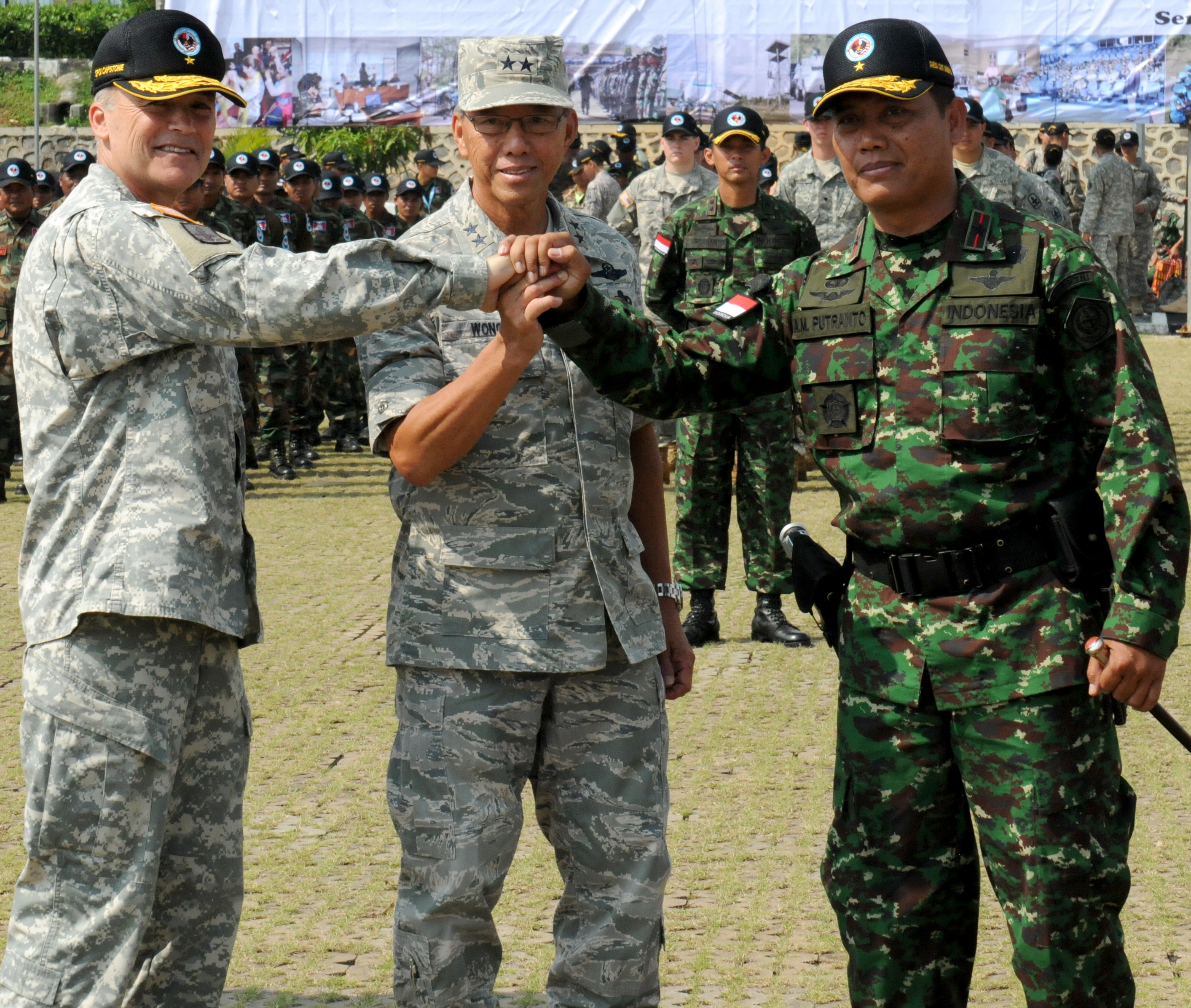 U.S. Army Brig. Gen. Bruce E. Oliveira, left, the commander of Hawaii Army National Guard; U.S. Air Force Maj. Gen. Darryll D.M. Wong, the adjutant general of Hawaii, and Indonesian Brig. Gen. AM Putranto, the commandant of Indonesian Peacekeeping Mission Center, join hands as a symbol of unification during the closing ceremony for the Global Peacekeeping Operations Initiative Capstone Training Event Garuda Canti Dharma 2014 at the Indonesian Peace and Security Center in Sentul, Indonesia, Sept. 1, 2014.